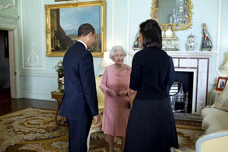 President Barack Obama and First Lady Michelle Obama meet Queen Elizabeth II April 1, 2009, during their visit to Buckingham Palace.